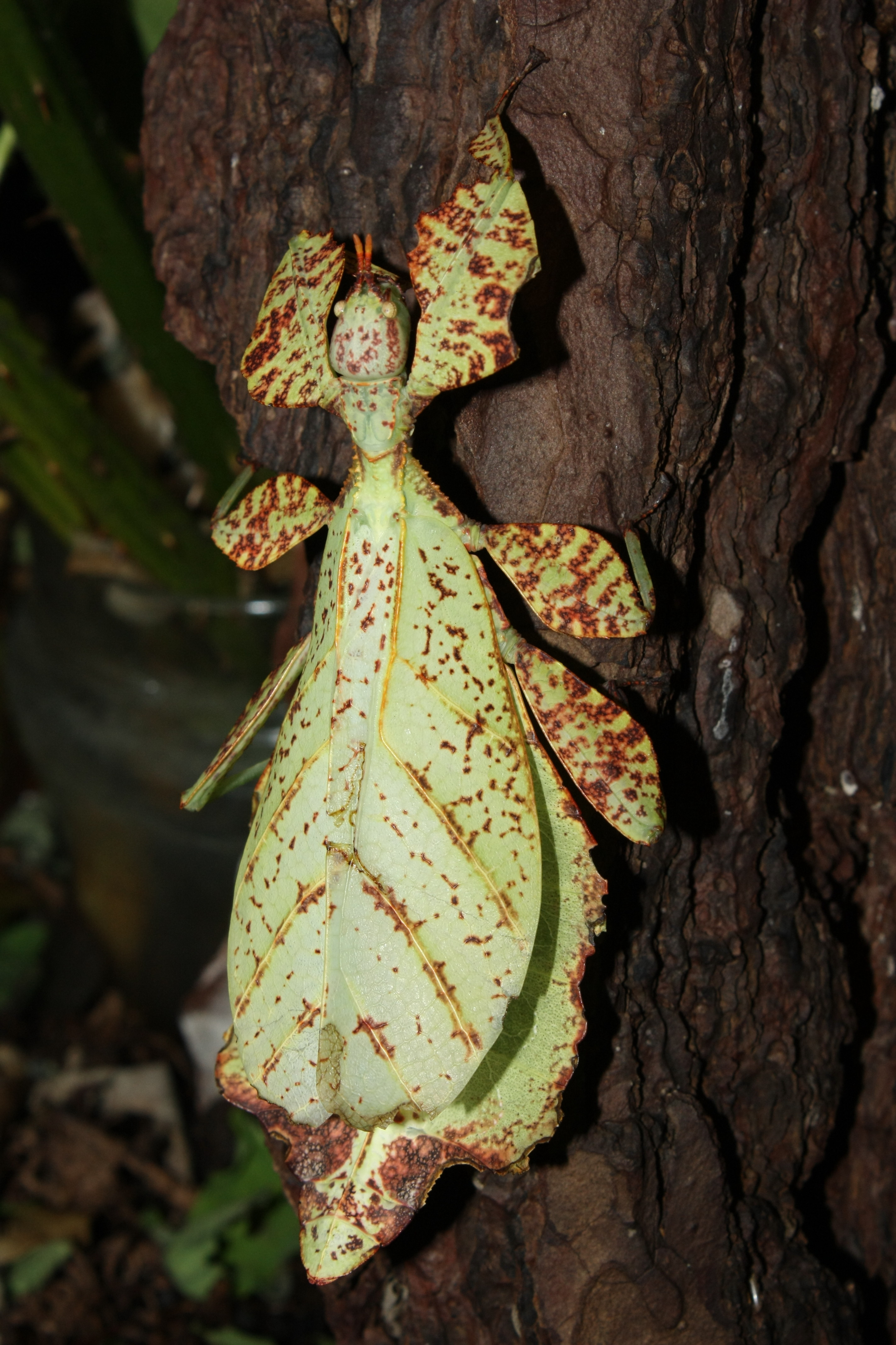 female of Phyllium ericoriai